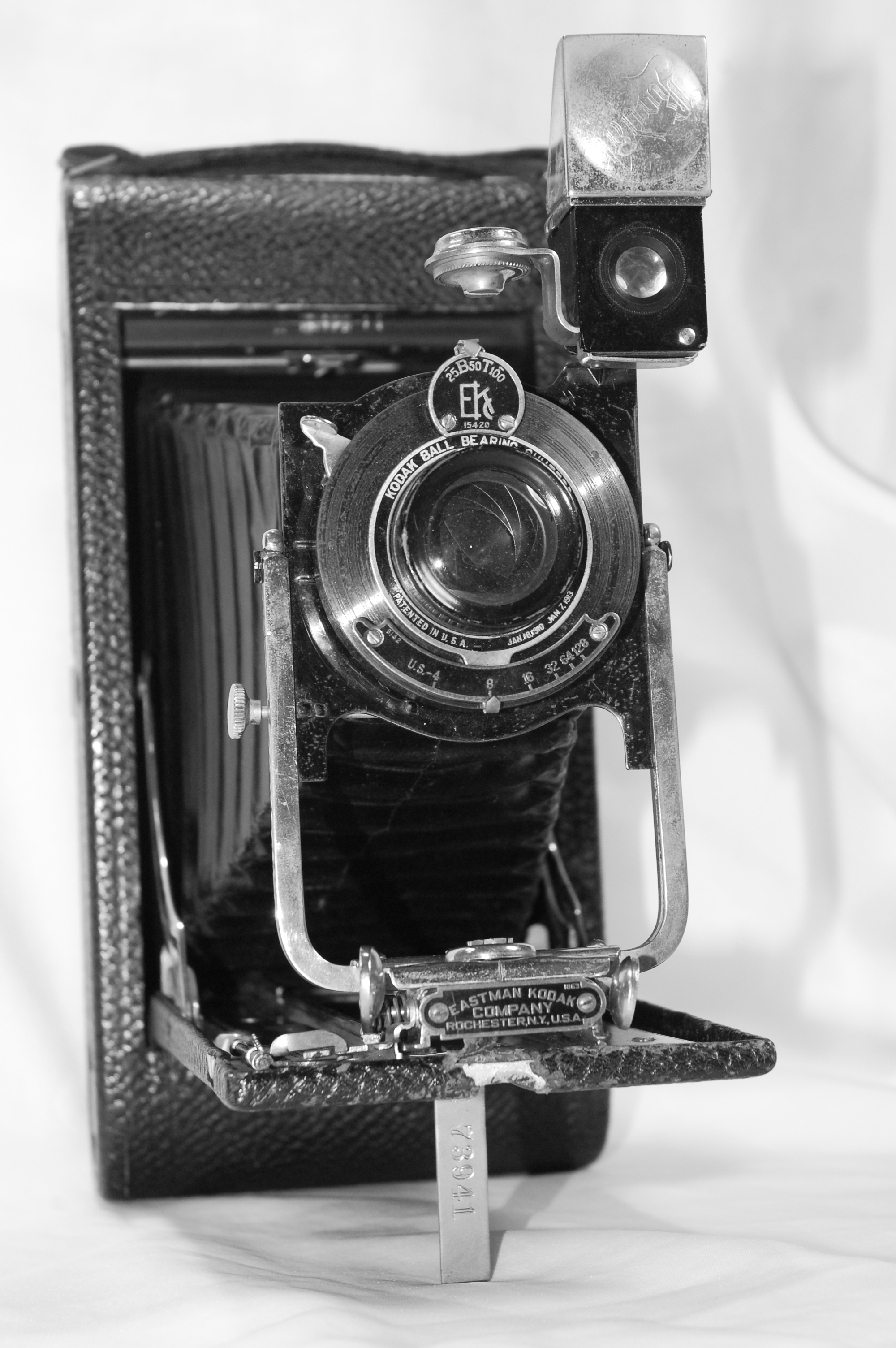 A Kodak Number 3A Autographic medium format camera. Camera back is a metal plate, removed to load film, stamped with patent information. The last entry is 1917. The 3A was manufactured from 1914 to 1934. Thanks to Stanley Martyniak for donating the camera to the NLN collection.